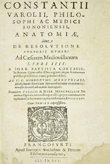 Title page to Anatomiae sive de resolutione corporis humani (1592) by Constanzo Varolio, original edition in the possession of the University of Pavia, Italy